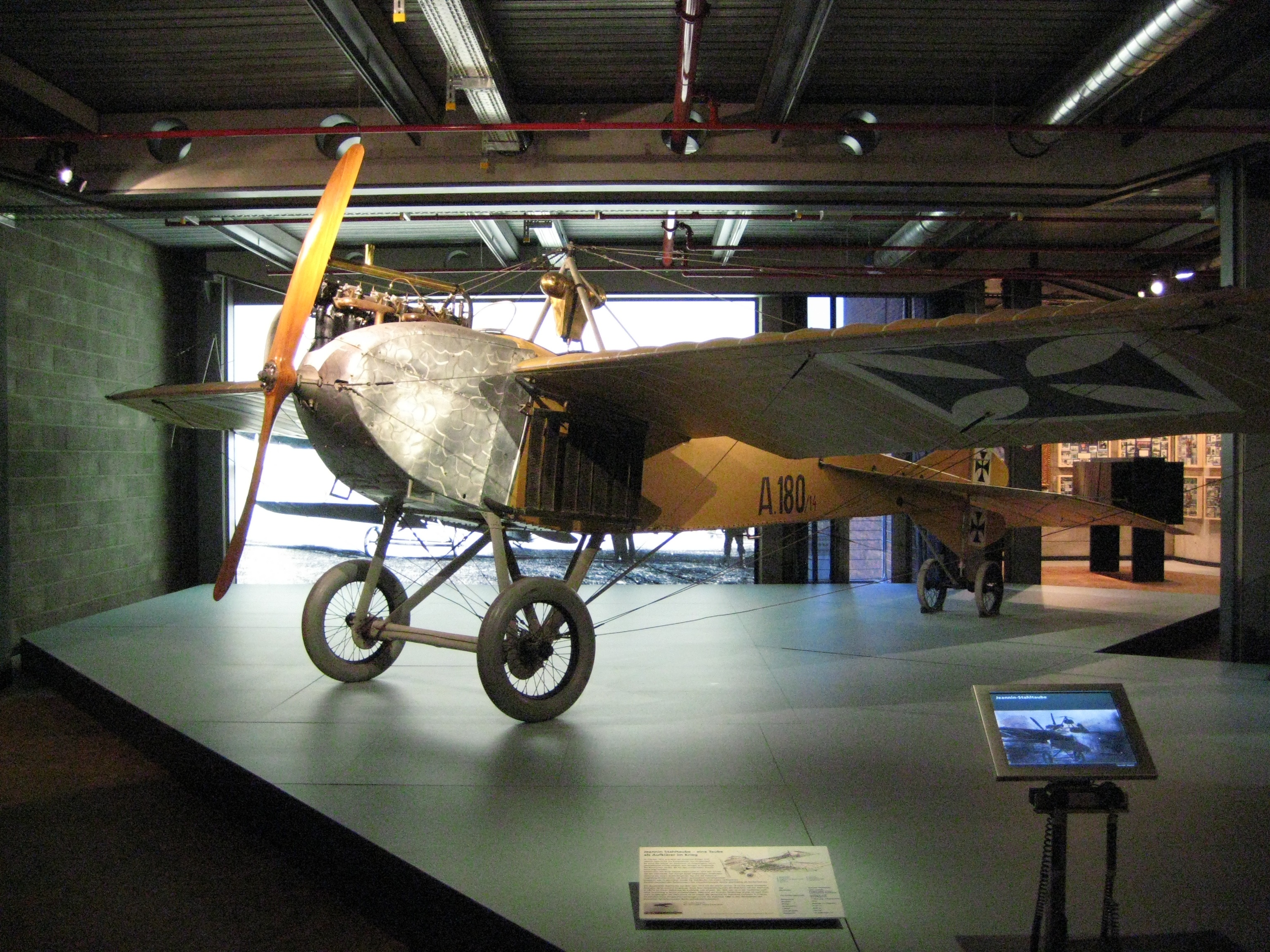 Jeannin Stahltaube, year of manufacture 1914, Emil Jeannin Flugzeugbau GmbH, Johannisthal